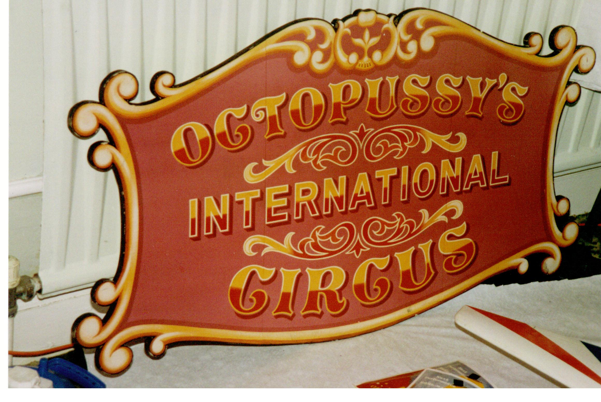 The sign from Octopussy's Circus, as shown on a James Bond convention in 1992. Photograph by Lennart Guldbrandsson.